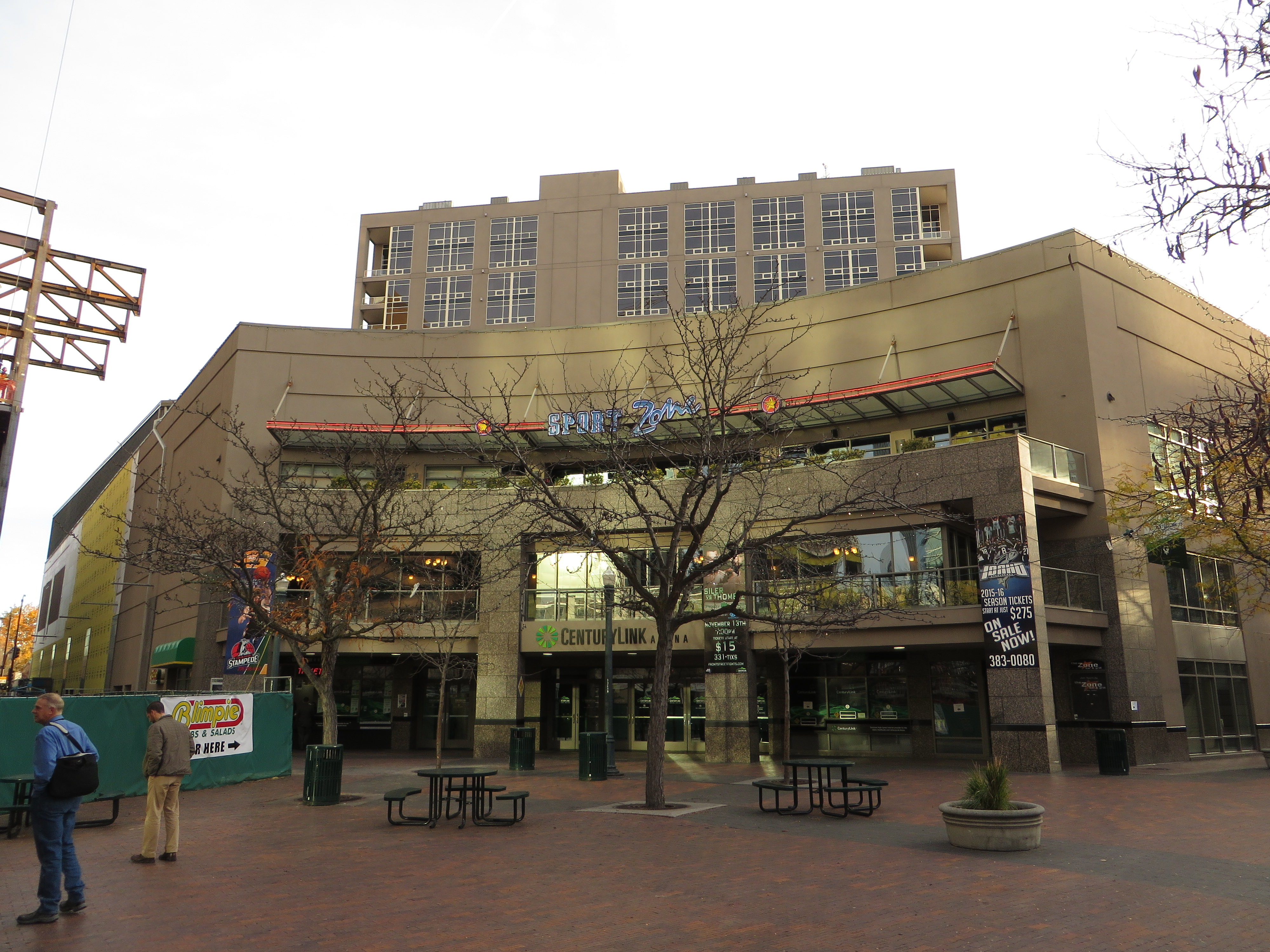 CenturyLink Arena (formerly Qwest Arena, originally Bank of America Centre) is a multi-purpose arena in the western United States, located in Boise, Idaho. Its seating capacity is 5,002 for ice hockey, 5,300 for basketball, 5,732 for end-stage concerts, 6,400 for boxing, and up to 6,800 for center-stage concerts. With 4,508 permanent seats, it was built for $50 million. In downtown Boise, its street level elevation is approximately 2,700 feet (825 m) above sea level. Opened 21 years ago, it has been the home arena of the Idaho Steelheads of the ECHL since 1997. Other tenants include the Boise Stallions of the Indoor Professional Football League in 2000 and 2001, the Idaho Stampede of the NBA Development League from 2005 to 2016, and the Boise Burn of the af2 from 2007 to 2009. With CenturyLink's takeover of Qwest Communications in 2011, the venue was renamed CenturyLink Arena Boise on August 18. Originally the Bank of America Centre, it became Qwest Arena in 2005.